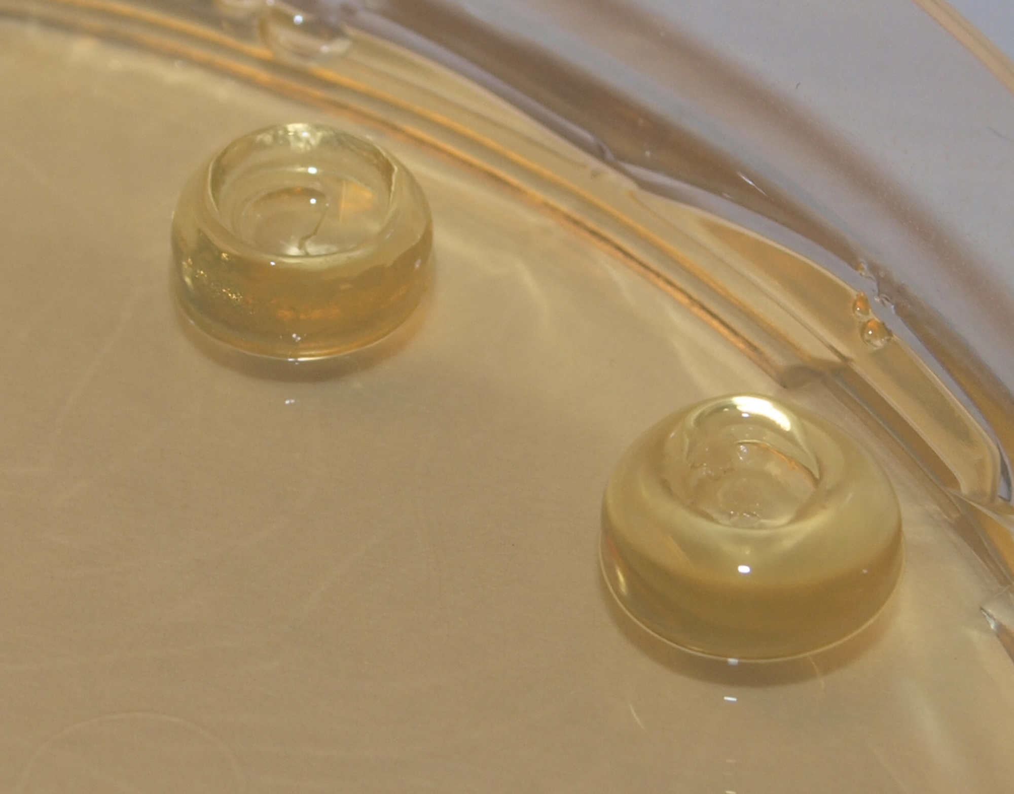 Bacterial exoenzyme levansucrase producing levan using sucrose.